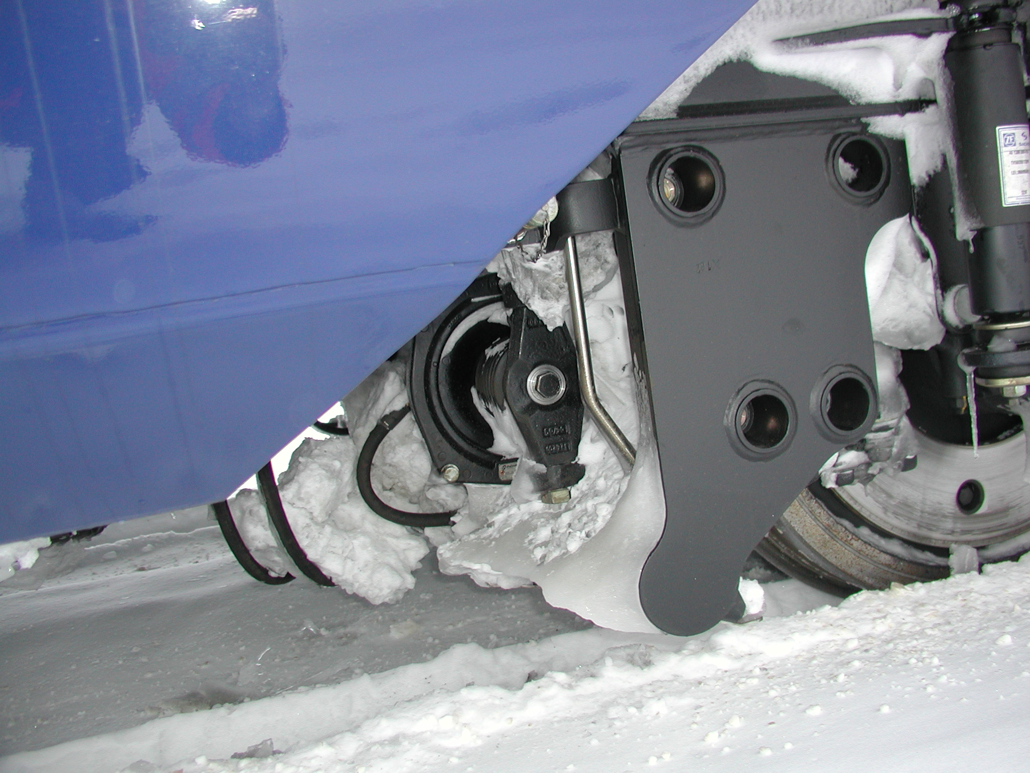 Ice build up in brake systems can cause the brakes of trains to malfunction.